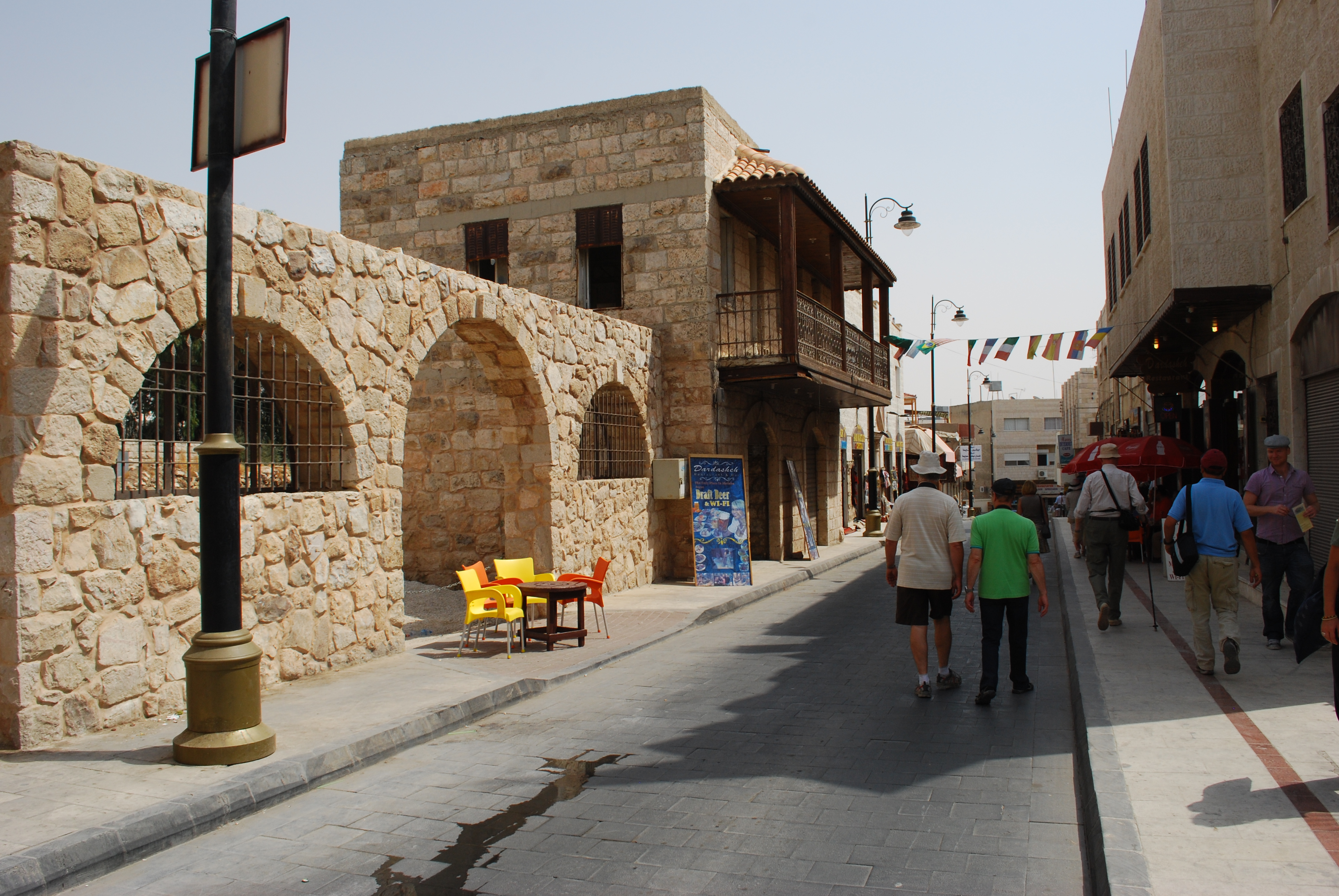 Madaba : Hussein Ben Ali Street.